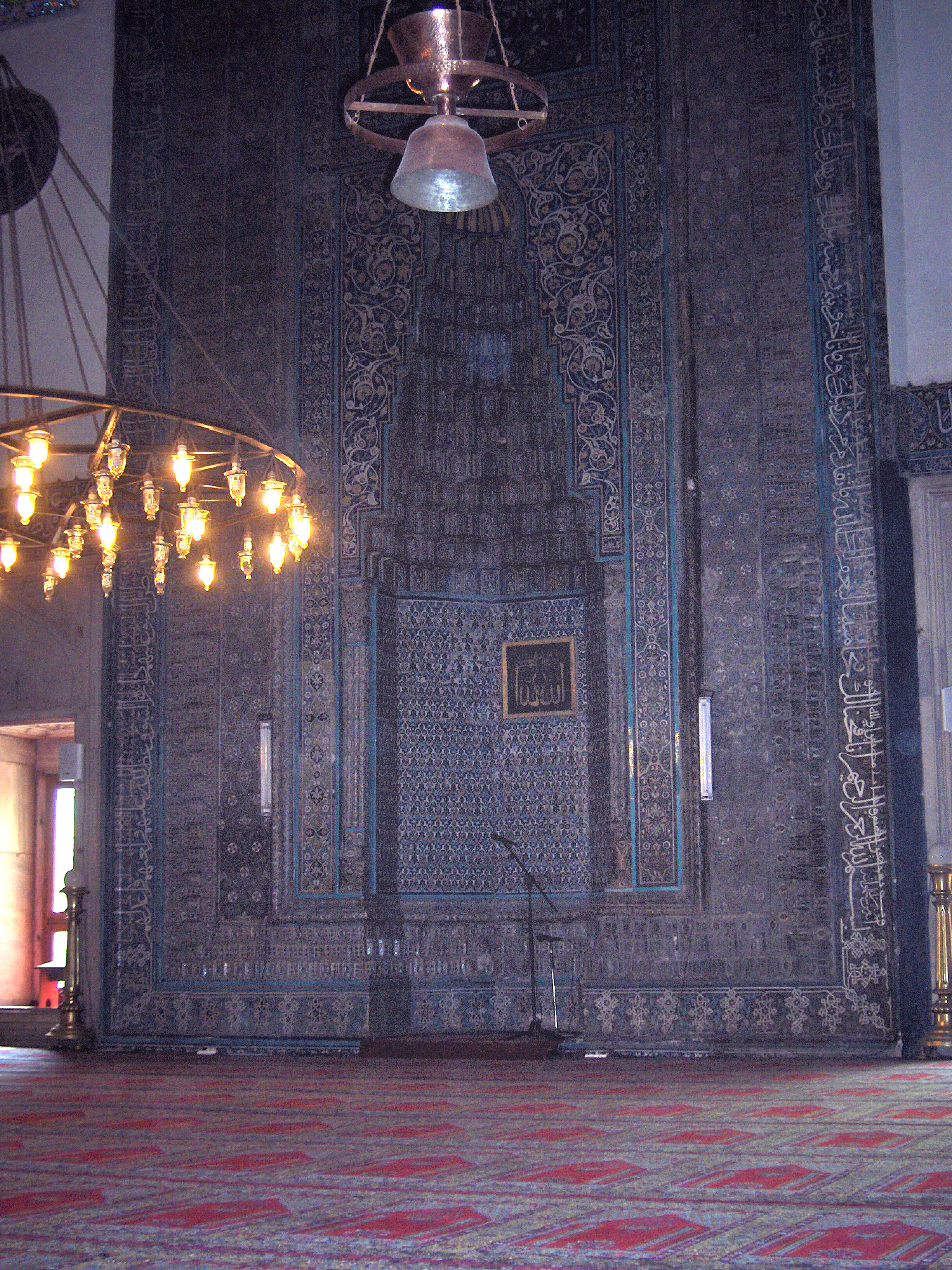 Interior view : mihrab of the Yeşil Cami (Green mosque) of Bursa, Turkey